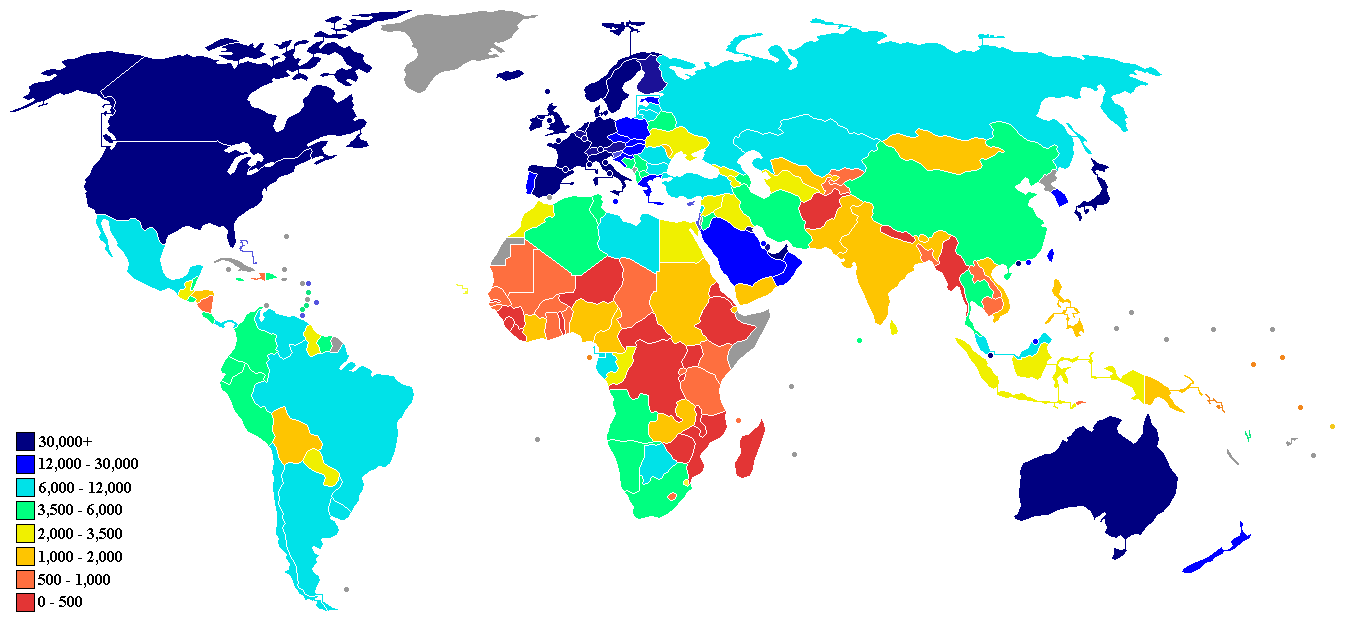 GDP nominal per capita for the world according to the 2009 data from IMF